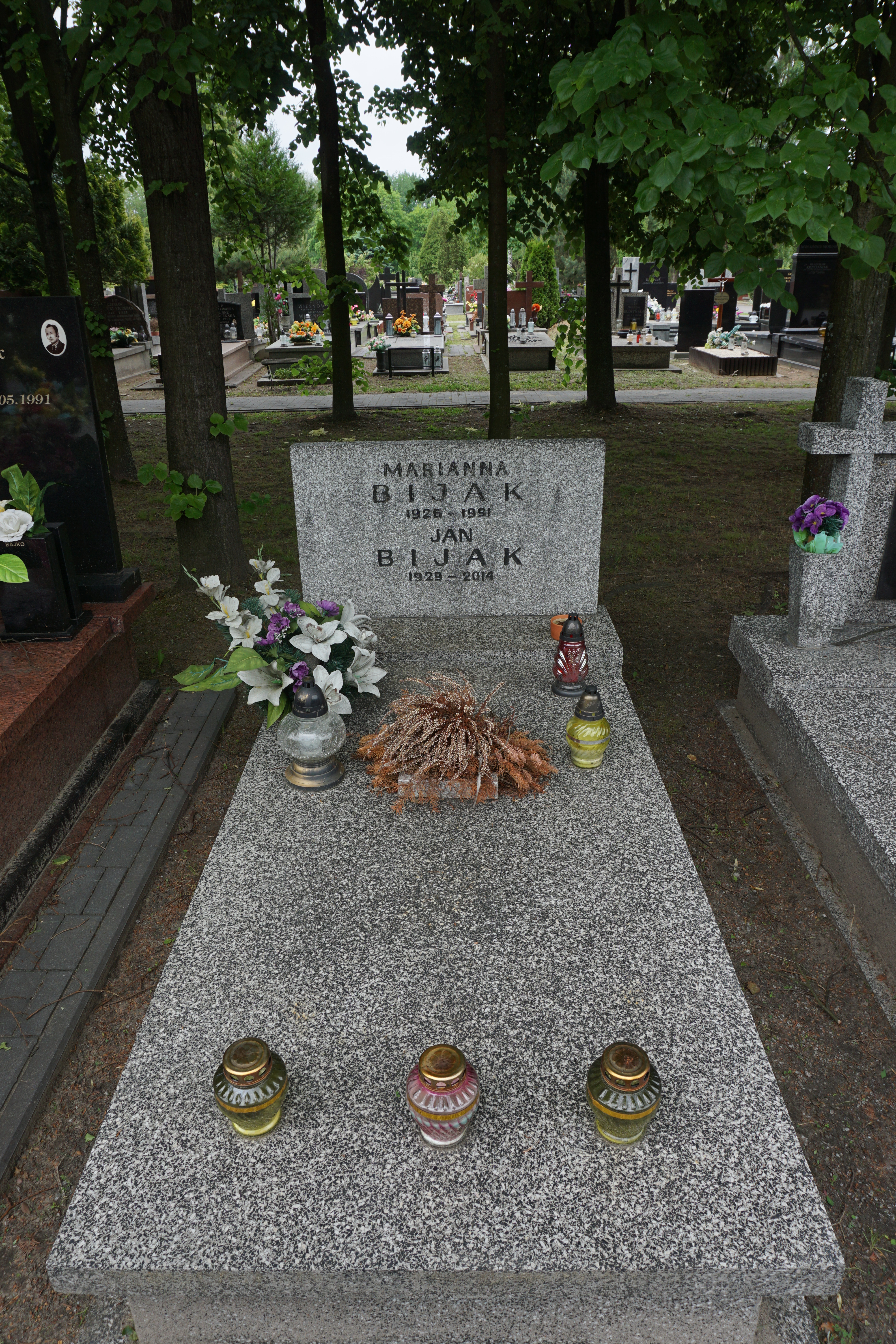 The grave of Jan Bijak at the North Municipal Cemetery in Warsaw (section E-IX-1, row 3, grave 17)